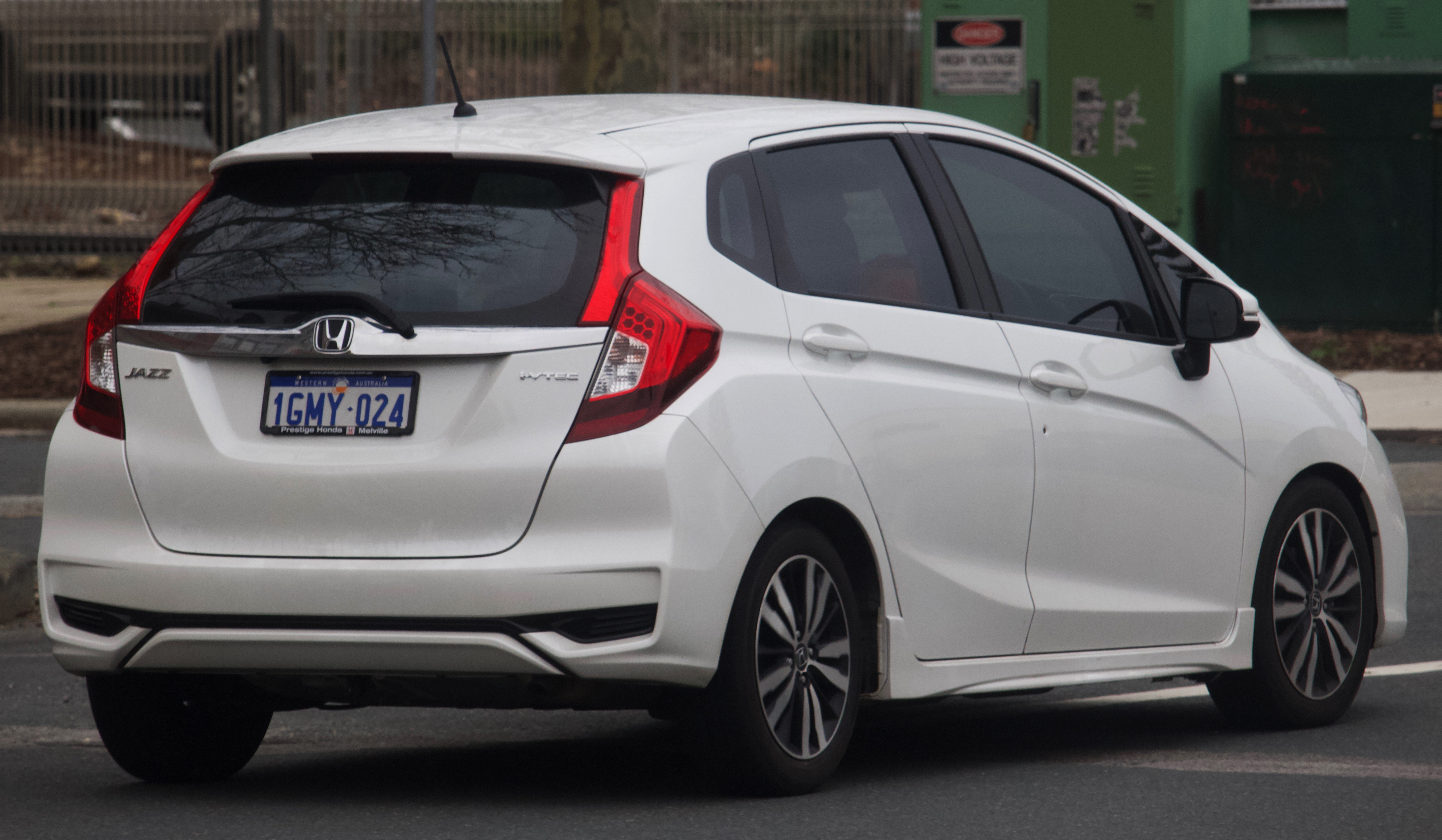 2018 Honda Jazz (GK5 MY18) VTi-S hatchback. I believe this is the VTi-S due to the omission of LED lights. Photographed in Fremantle, Western Australia, Australia.